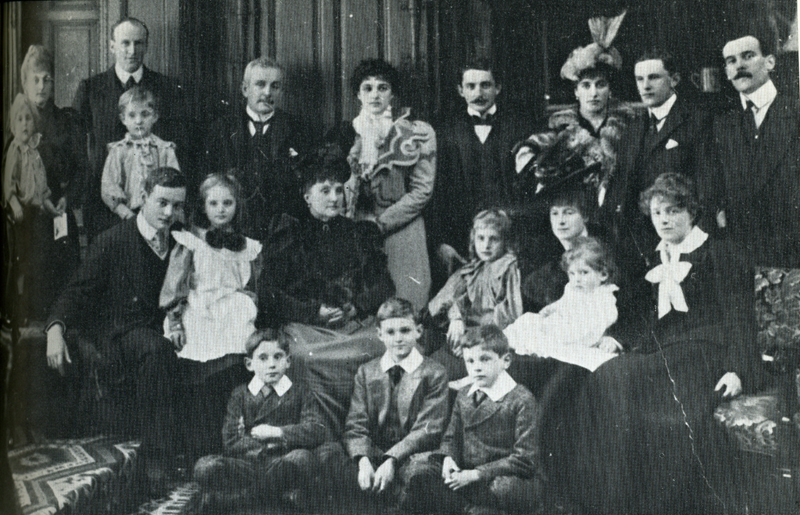 The Wilson family of Tranby Croft circa 1900